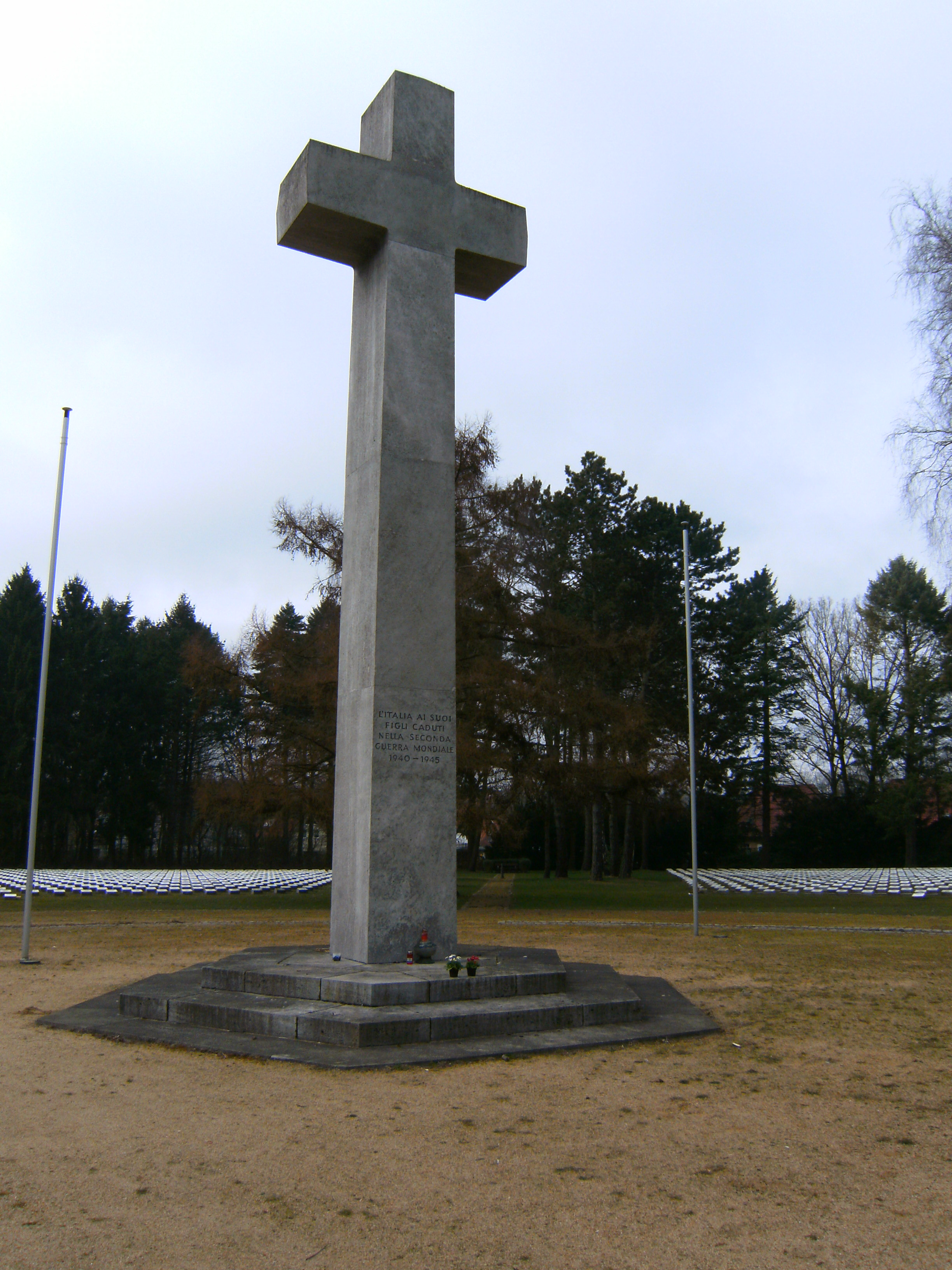 High cross in the middle of the burying sections in the Italian war graves cemetery Hamburg-Öjendorf.